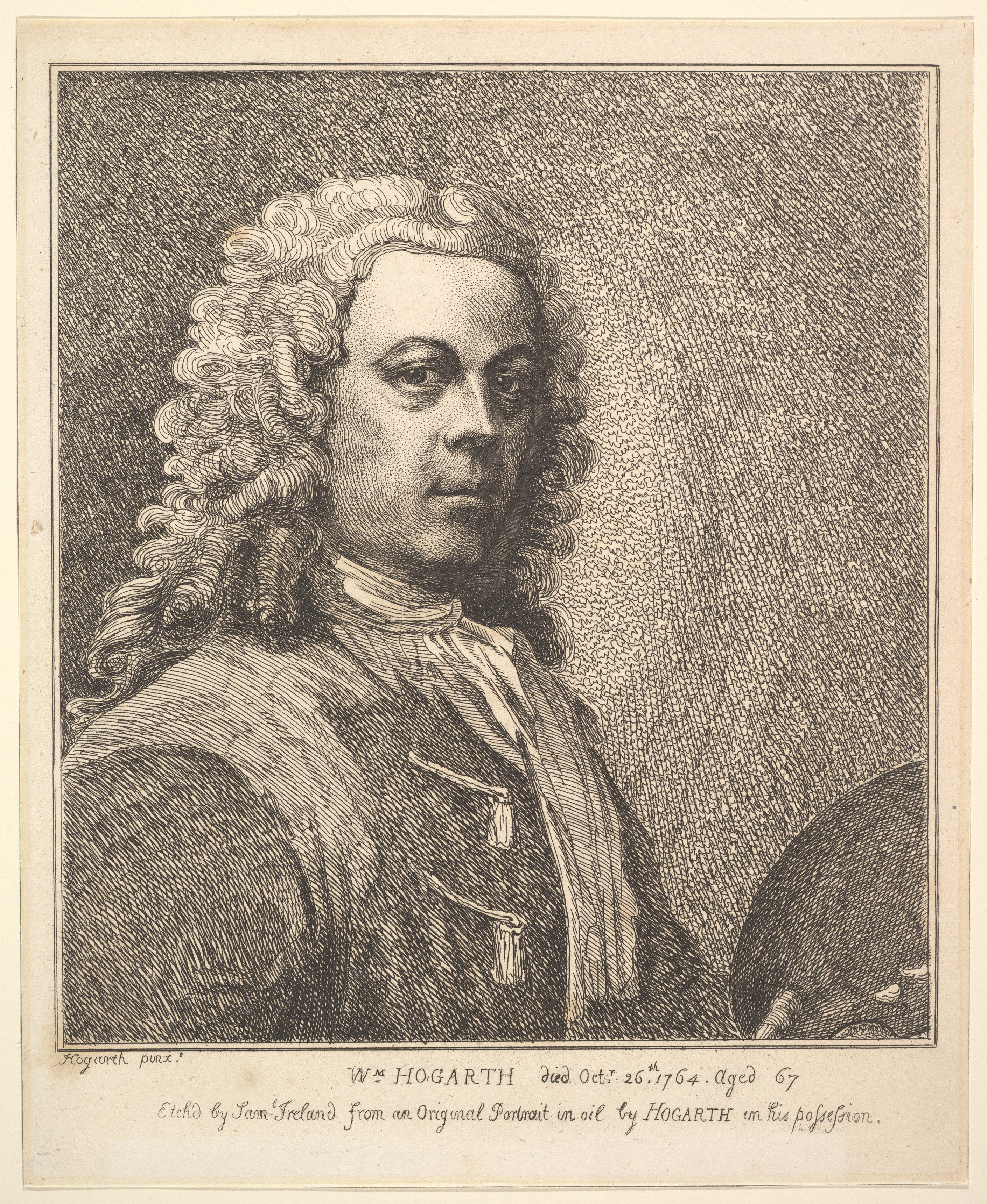 Print; Prints